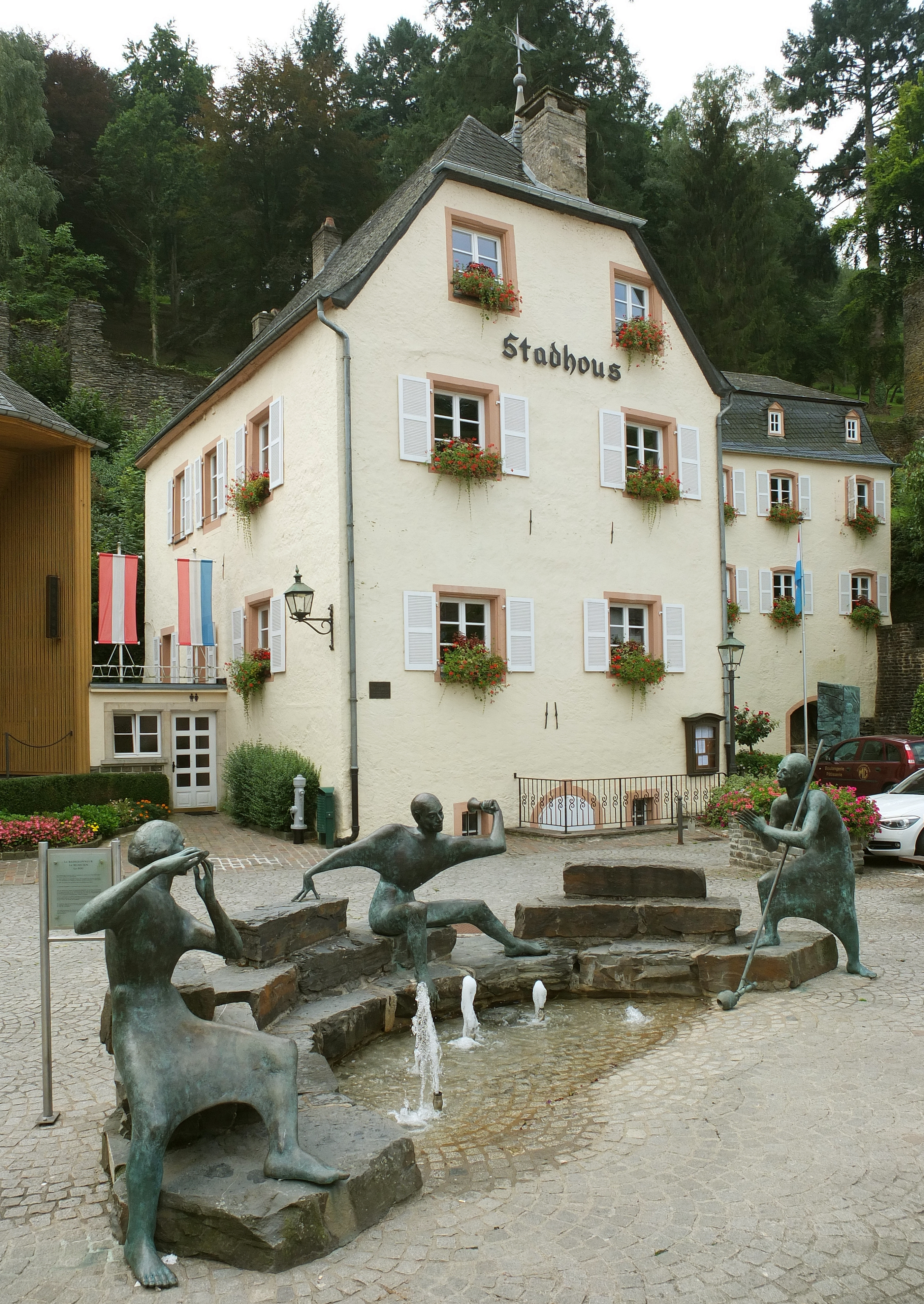 Town hall of Vianden, Luxembourg